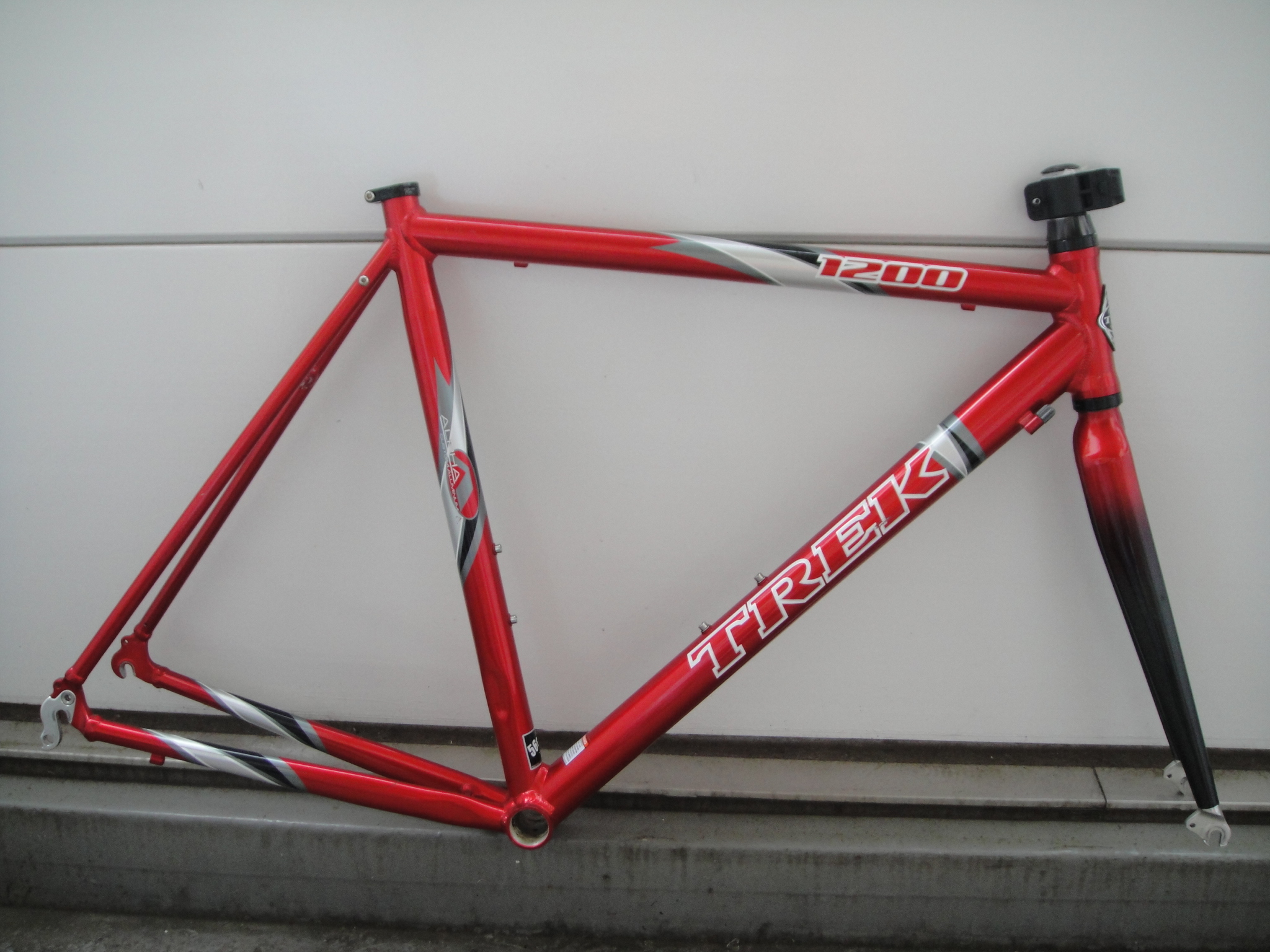 TREK 1200 FLAME RED